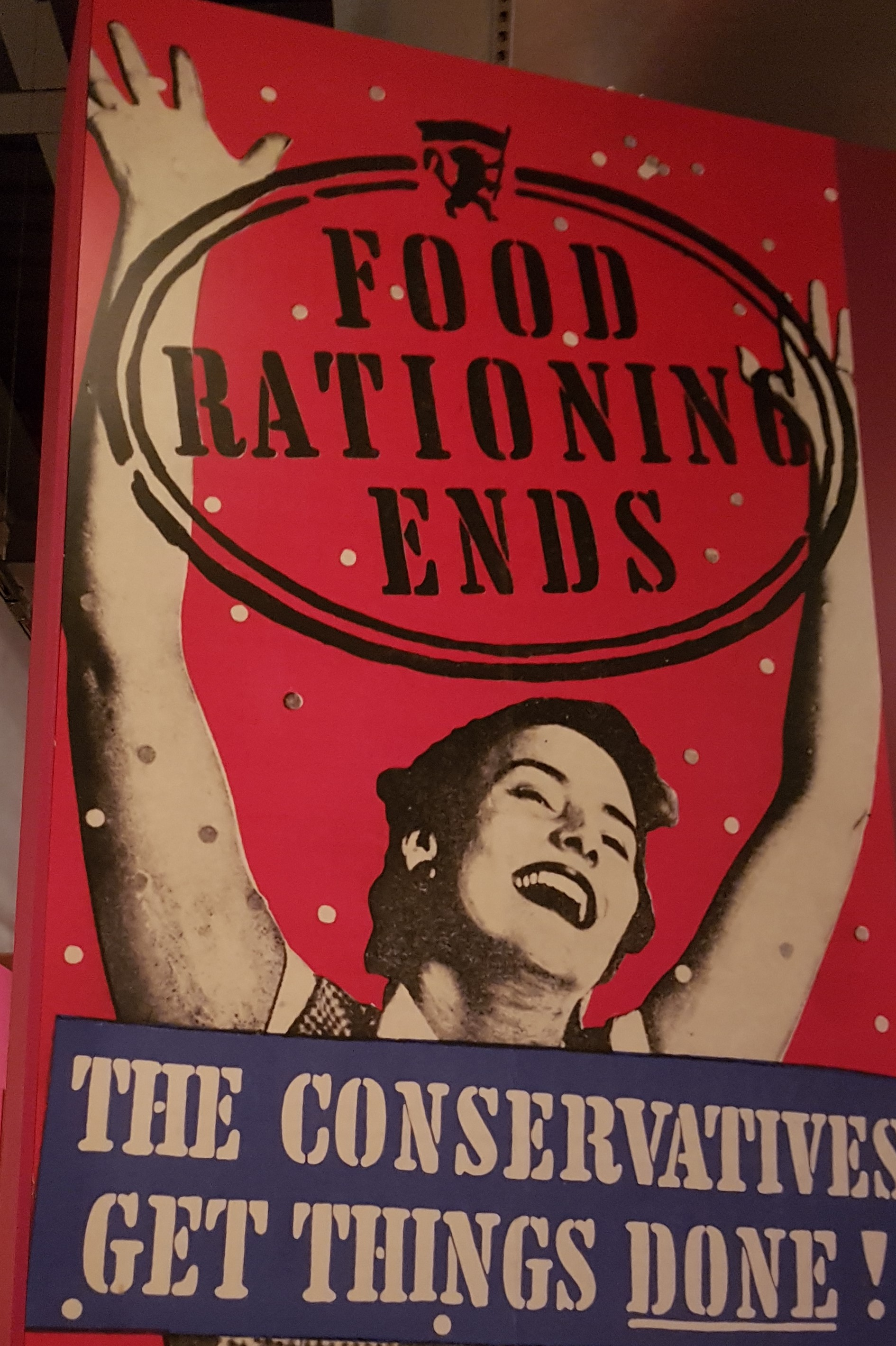 Food rationing ends Conservative poster